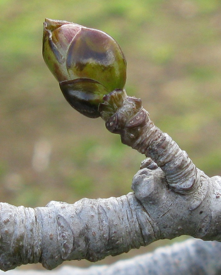 This winter bud shows signs of beginning to swell and break dormancy.